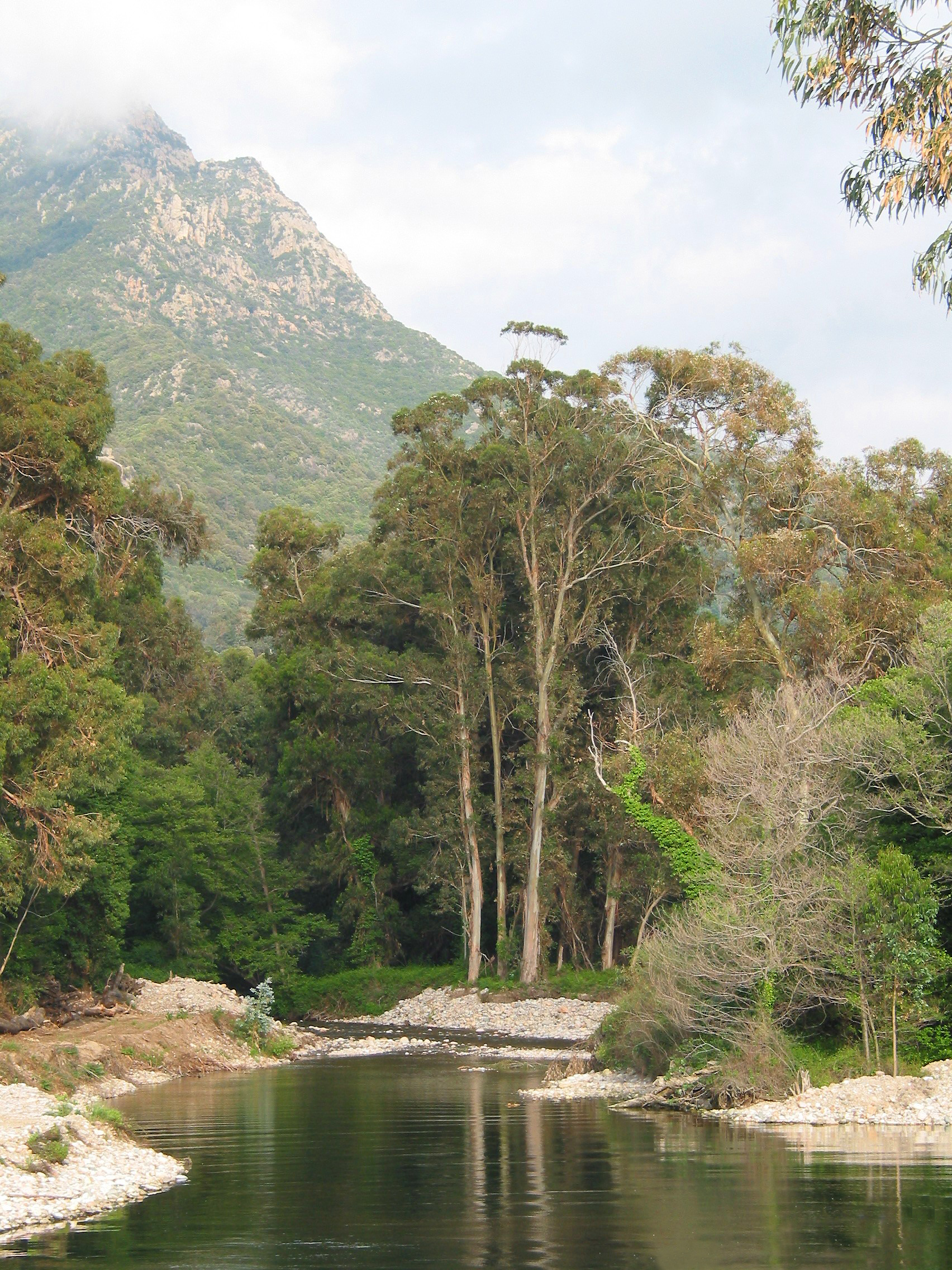 Eucalyptus ( Eucalyptus) - Habitat: Ota ( Corse-du-Sud) - France, eucalyptus wood of the Porto marina. Walon: Eucalyptus (Eucalyptus) - Abitat: Ota (Corse-do-Sud) - France, bwès d’eucalyptus dol marina di Porto.